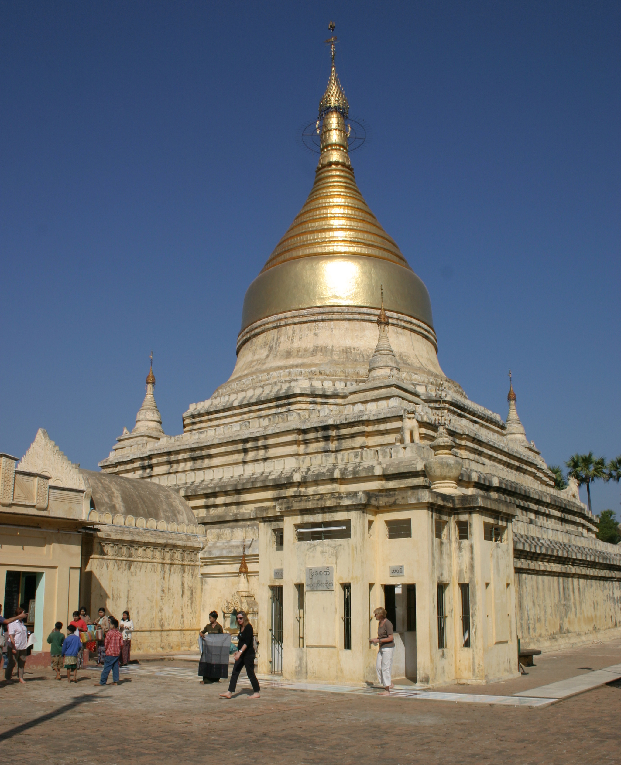 Myazedi temple, Bagan, Myanmar.